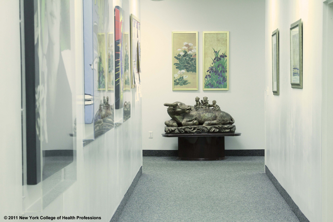 Photo that showing a hallway at New York College of Health Professions displaying several of the art objects that have been donated to the college.